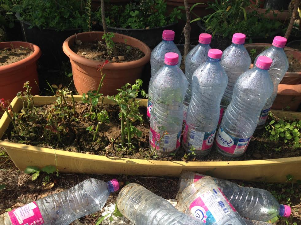 Greenhouse cuttings keep the moisture and the heat needed for good success in cuttings.